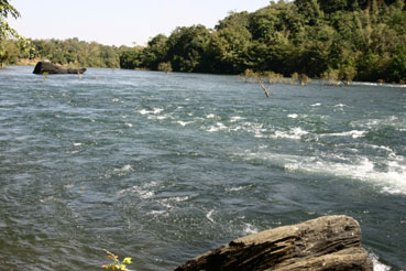 Kali River rapids in Dandeli